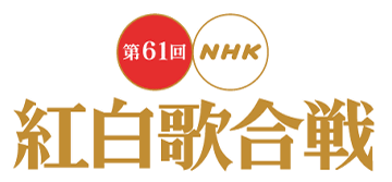 Logo of NHK Kōhaku Uta Gassen (Japanese New Year yearly musical competitions show), edition 61 (December 2010)